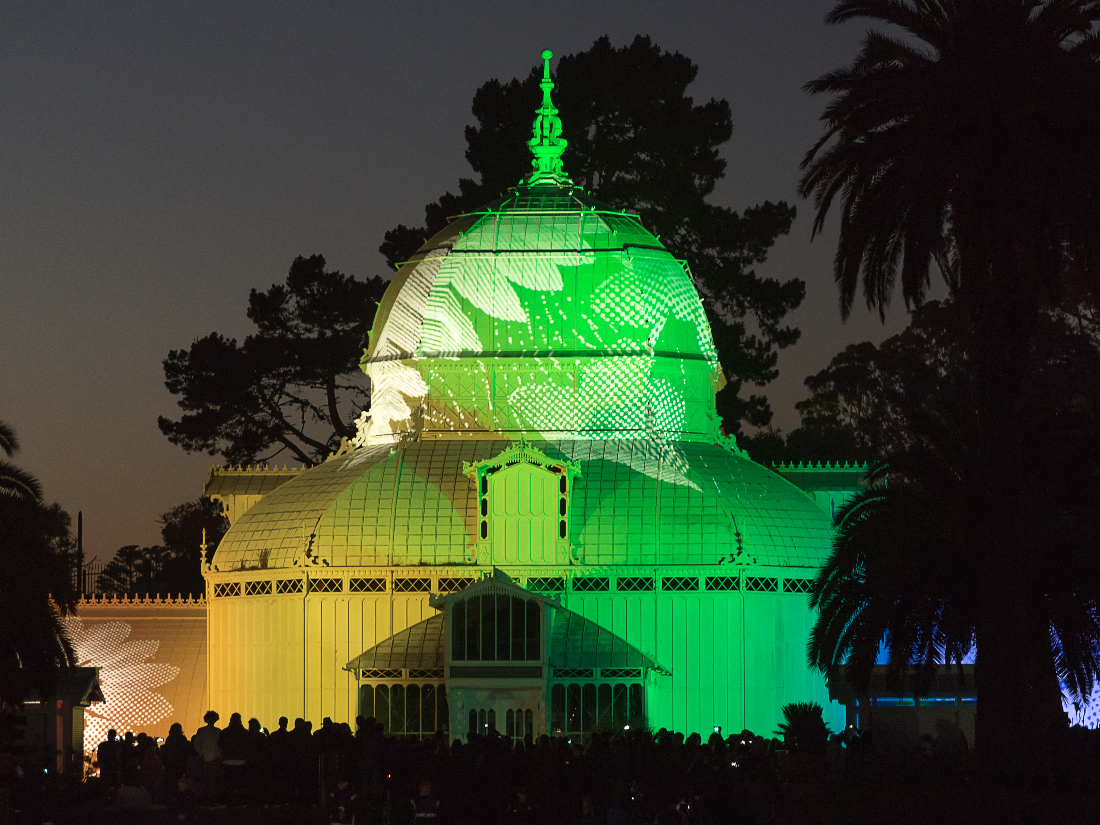 Grand Lighting and Surrealistic Summer Solstice Concert to Celebrate Summer of Love 50th: the San Francisco Conservatory of Flowers in Golden Gate Park on June 21st, 2017